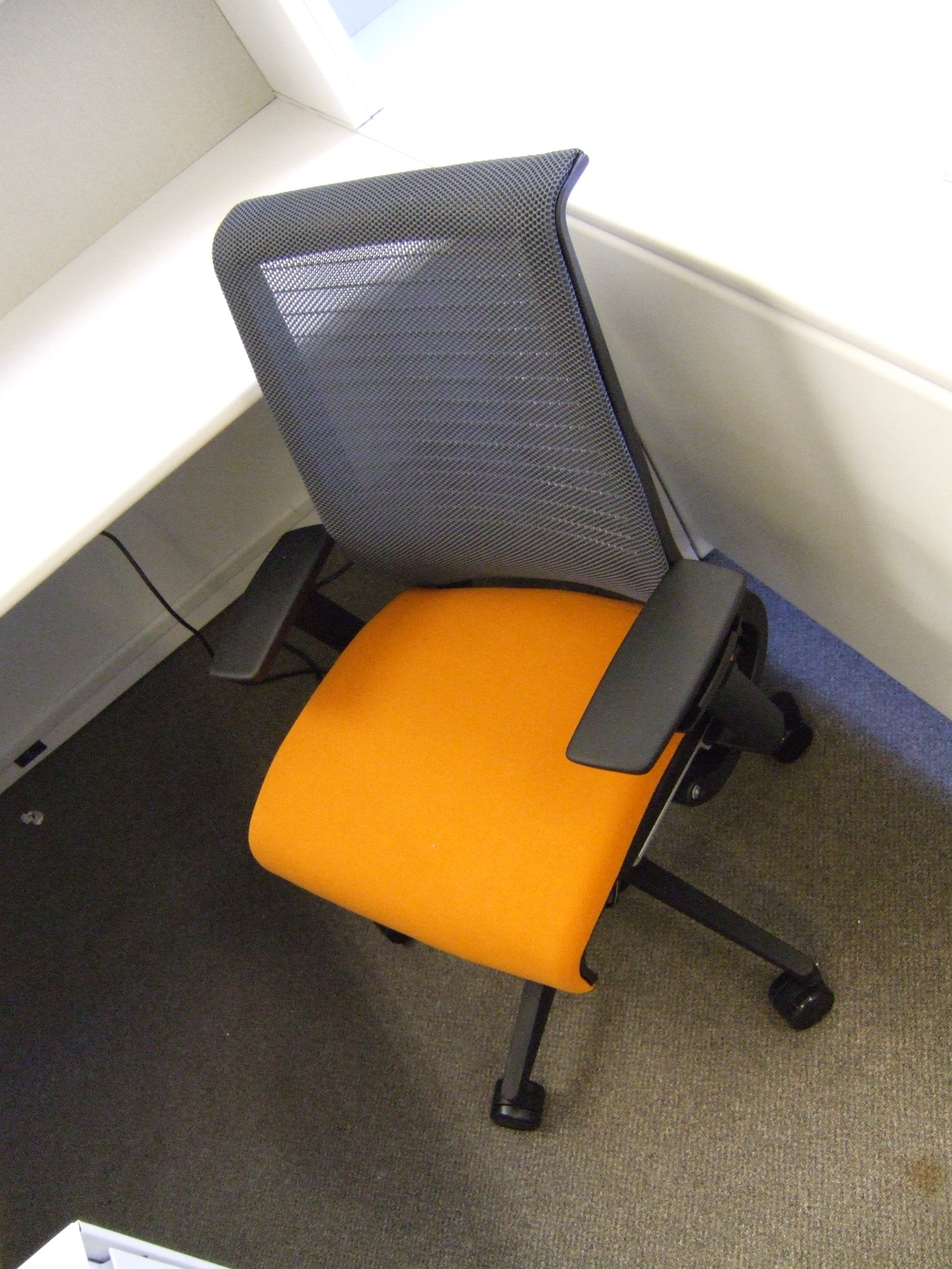 Think Chair by Steelcase